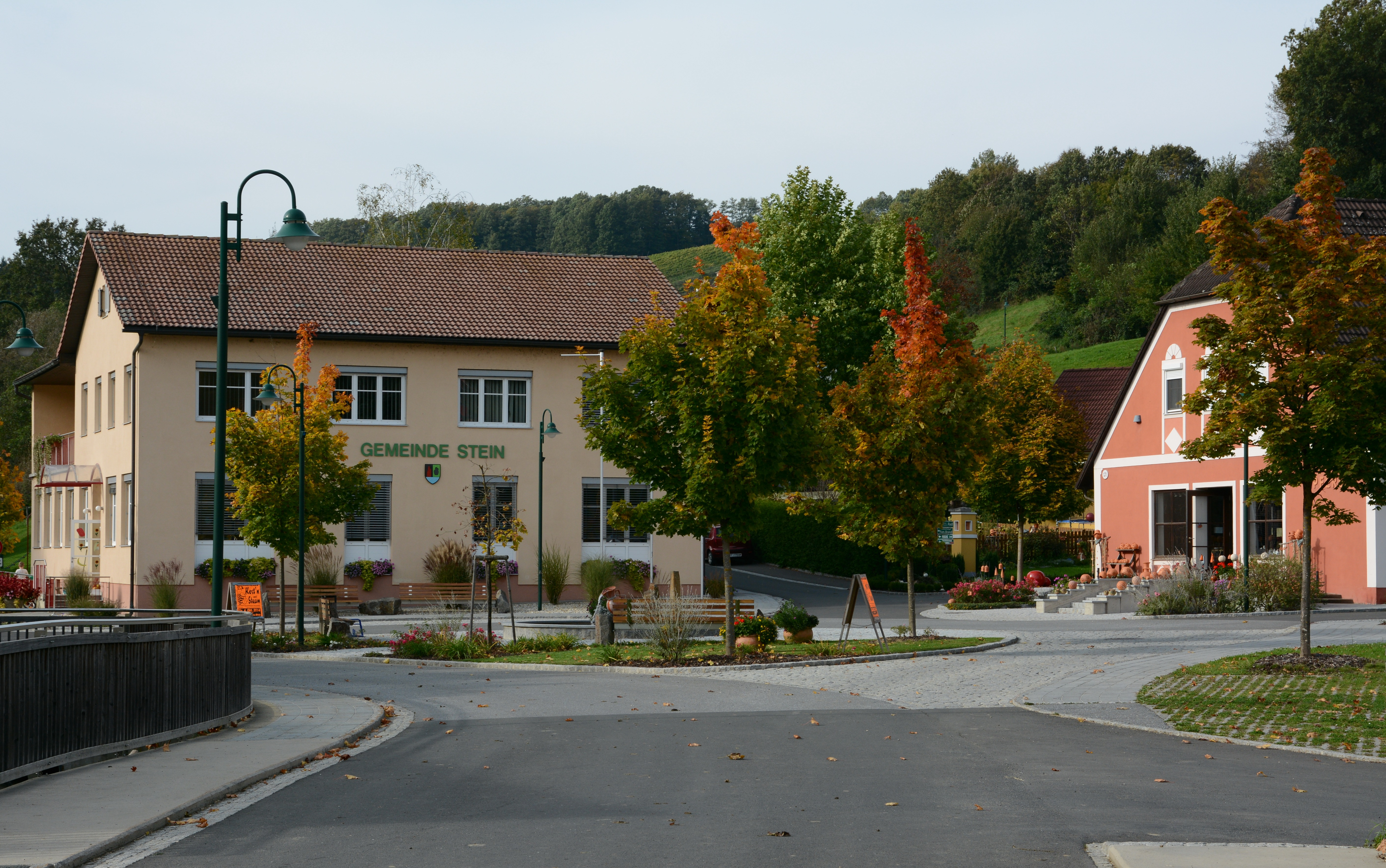 Stein bei Fürstenfeld Styria